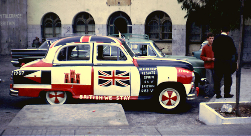 A car painted to celebrate the results of the Gibraltar referendum held in November 1967